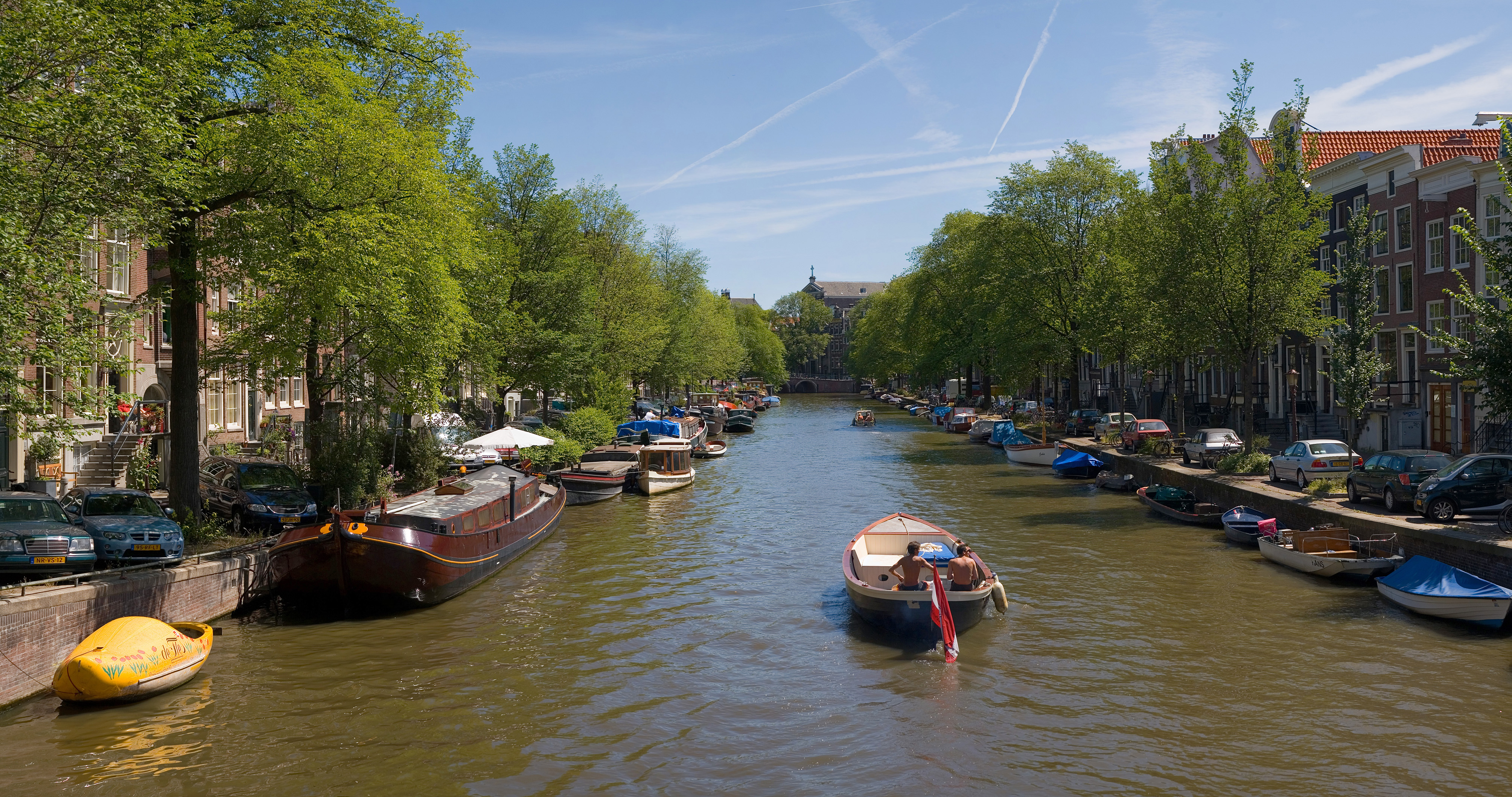 A panorama of 4 segments of an Amsterdam Canal in summer.